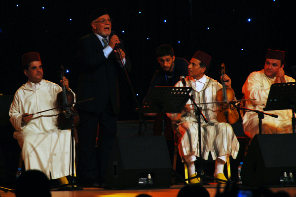 [Anouar Hamama] Cantor Haïm Louk and the Hadj Abdelkrim Raiss Orchestra performed October 28th on the Essaouira stage. Full story